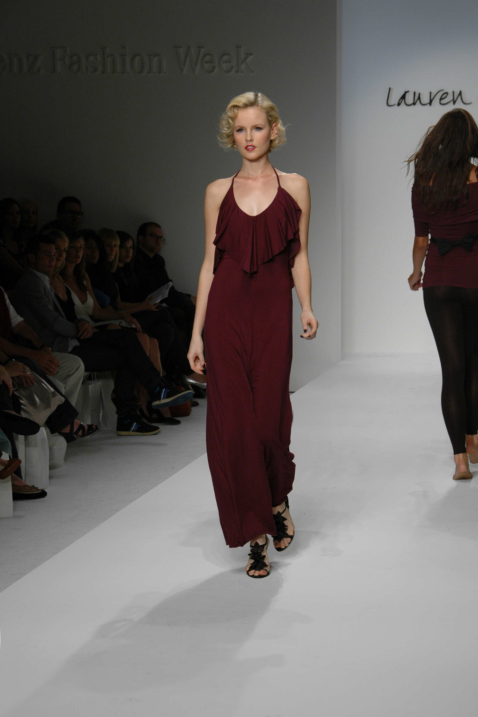 Los Angeles Fashion Week at Smashbox Studios, Culver City, CA 03/11/2008 - Photo by Glenn Francis of